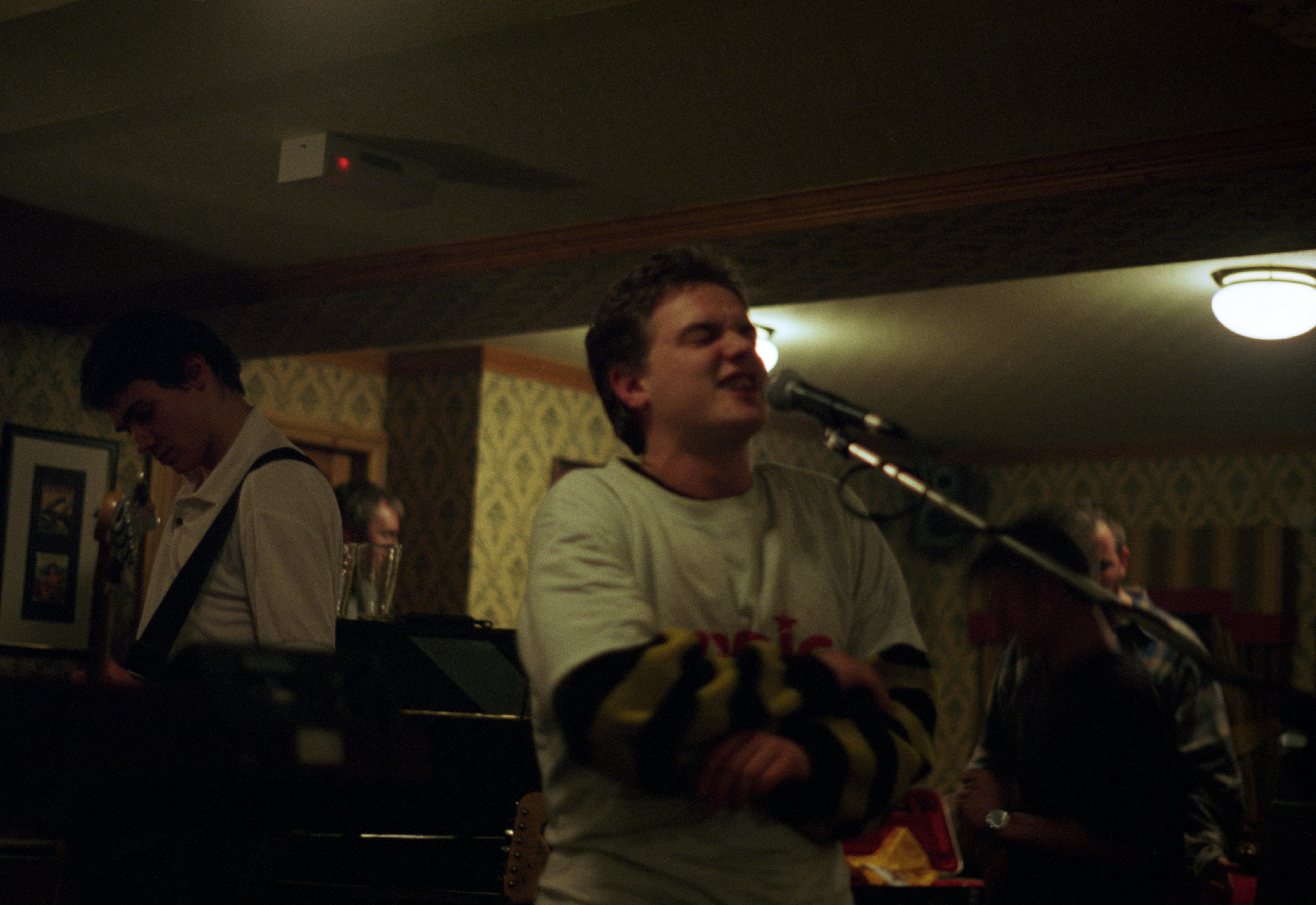 Richard James & Oz Wright - Gorky's Zygotic Mynci. Concert at The Turff, Wrexham. December 1995. Image by Medwyn.